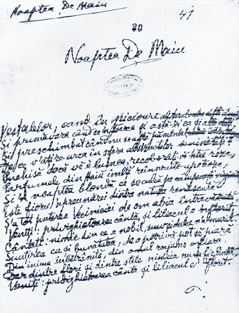 Facsimile of Alexandru Macedonski's manuscript version of his Noaptea de mai or Noaptea de maiu ("May Night") poem. Numbered after page and place in a succession of poems, within a notebook intended as the template for a printed volume.